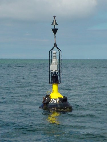 Cardinal mark E / Location: SW of the island of Fehmarn